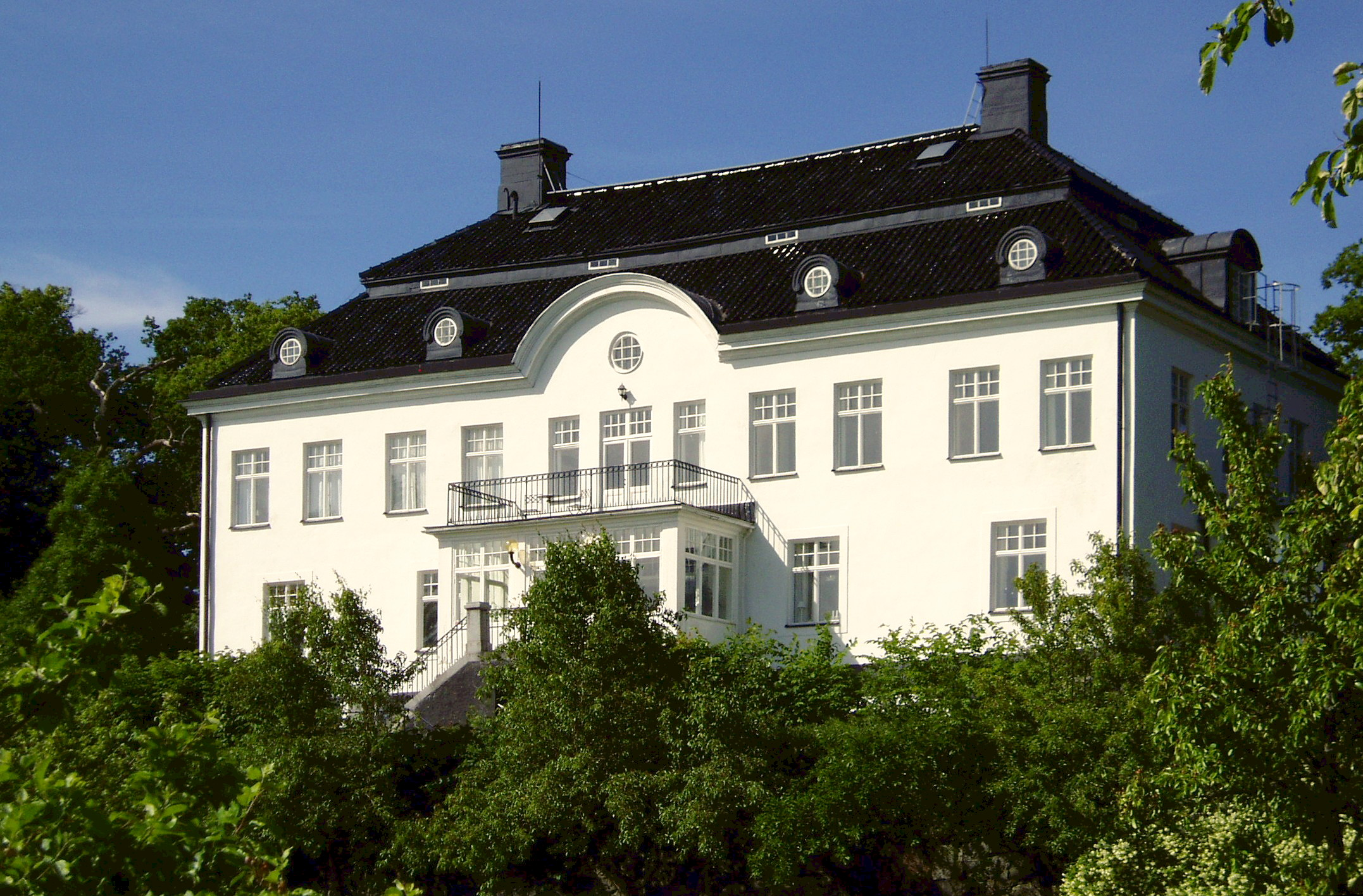 Rastaborg mansion, Ekerö municipality, Sweden